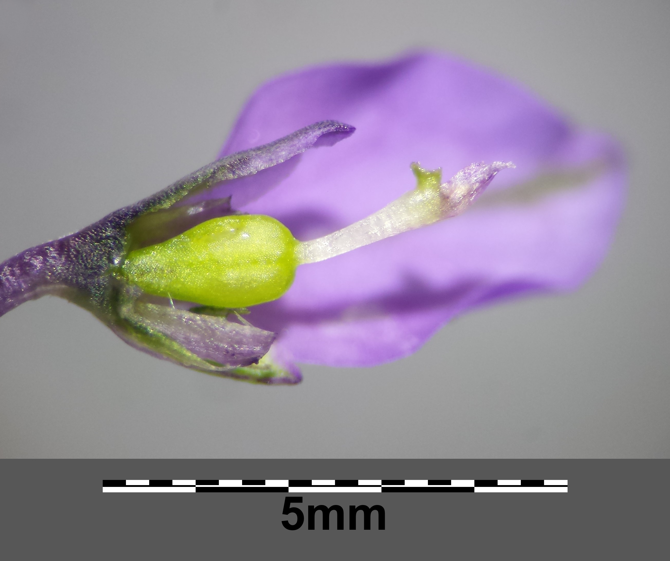 Ovary with stylus Taxonym: Polygala vulgaris subsp. vulgaris ss Fischer et al. EfÖLS 2008 ISBN 978-3-85474-187-9 Location: nearby Riebeis, Rappottenstein, district Zwettl, Lower Austria - ca. 750 m a.s.l. Habitat: wayside